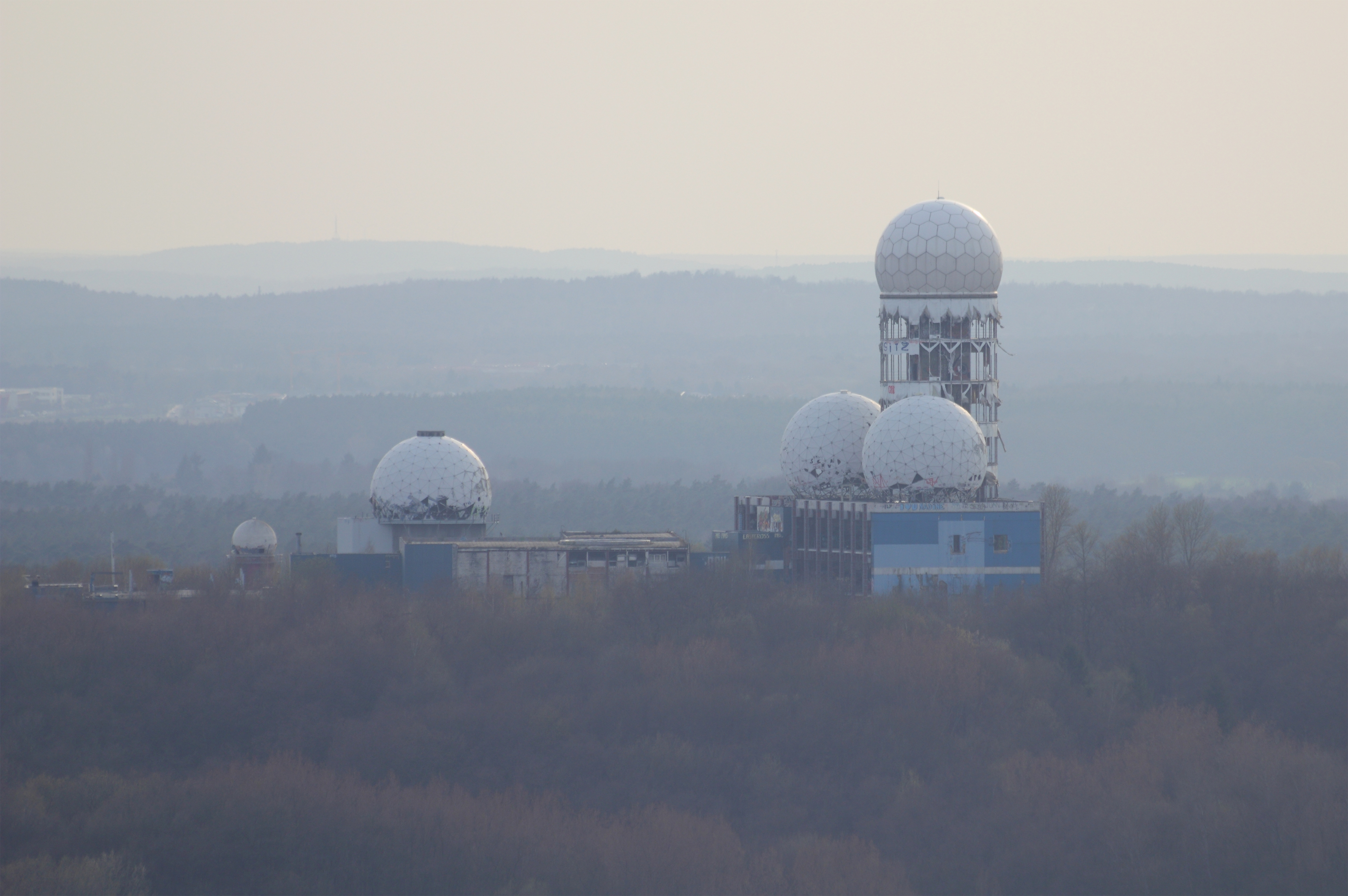 Berlin views from Radio Tower at the Trade Fair.